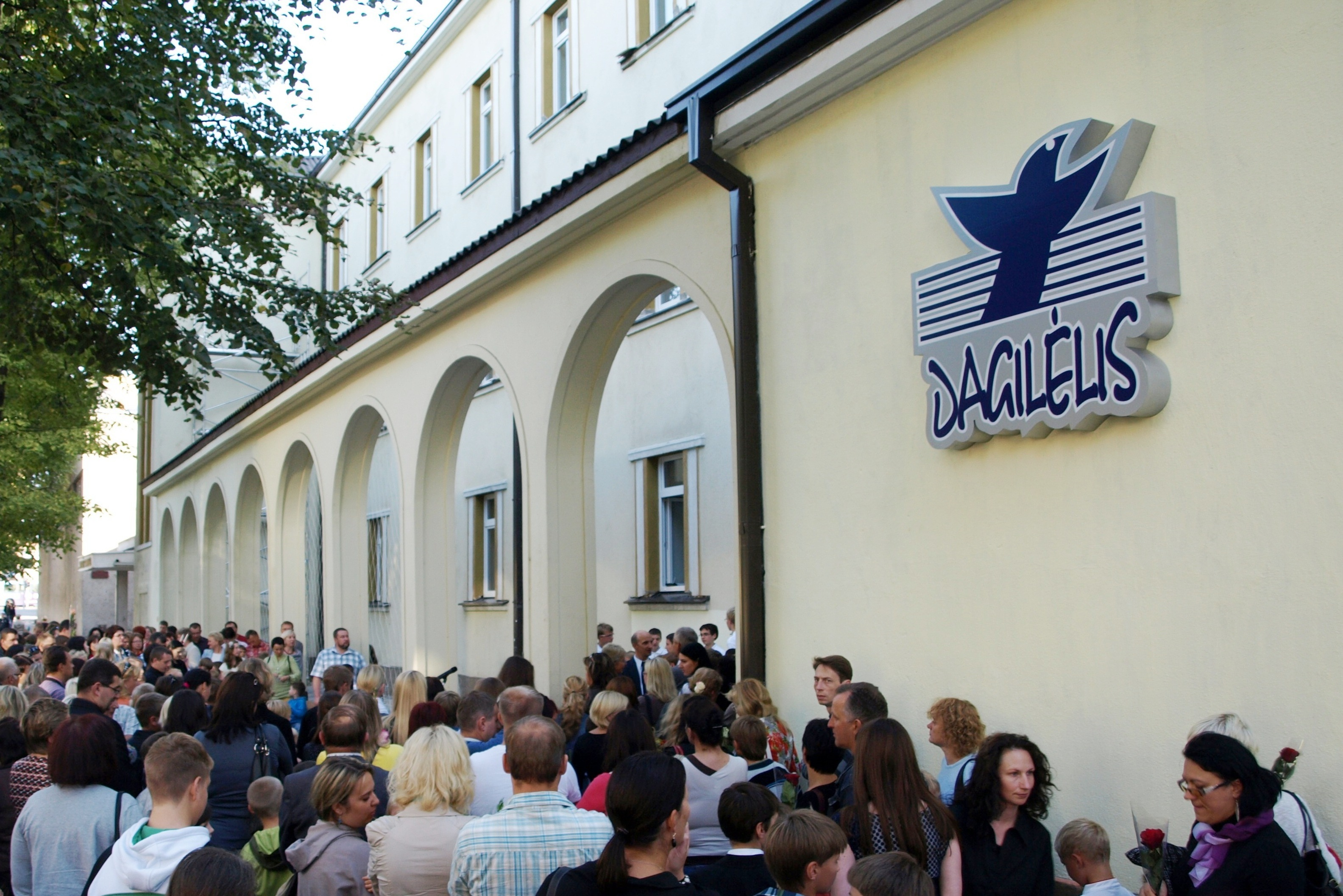 05.09.2011 Šiauliai singing school "Dagilėlis" (Vytauto st. 113, Šiauliai, Lithuania). New school year celebration (Photo by Romas Bieliauskas).